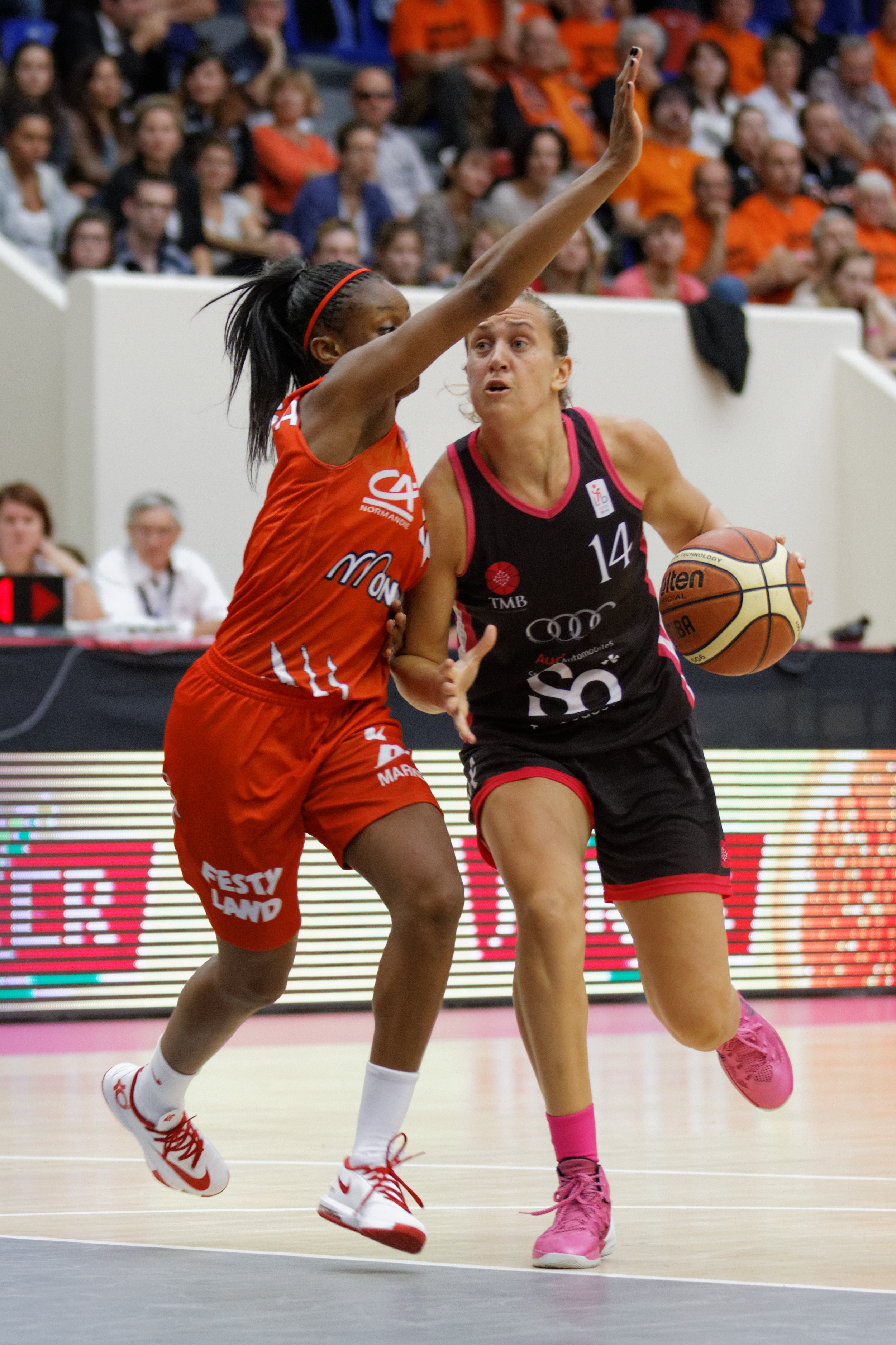 Open LFB, Toulouse-Mondeville, October 5th, 2013.